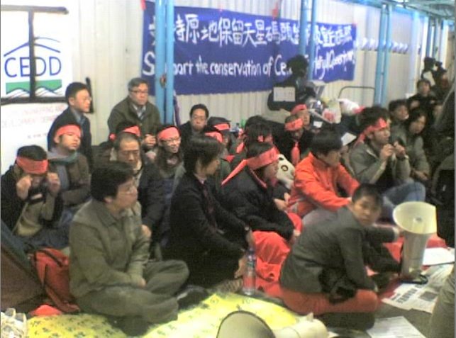 Student sit-in to protest against the demolition of the Edinburgh Place Ferry Pier, Hong Kong